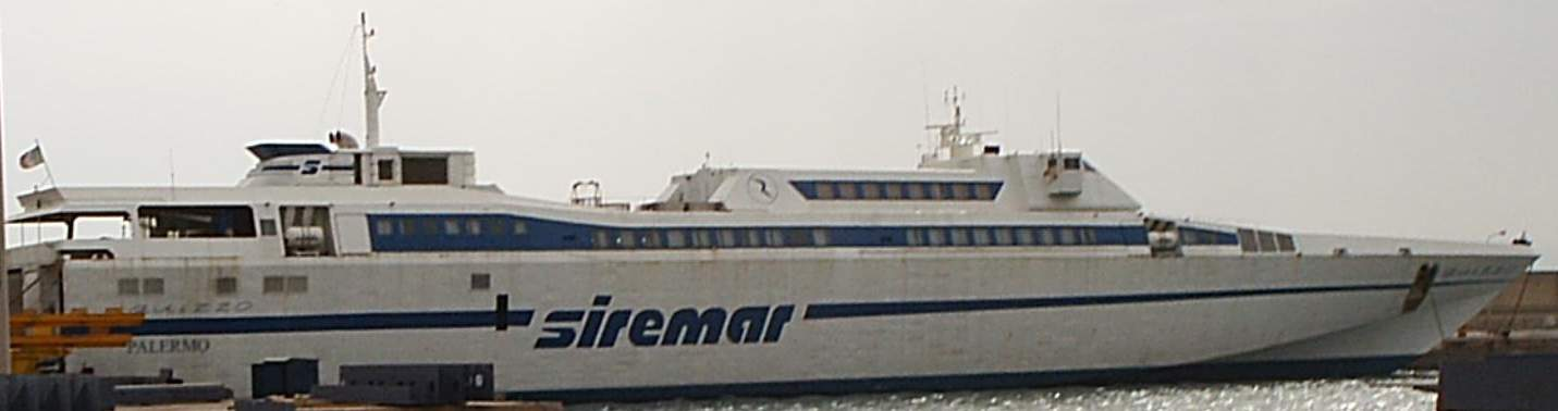 fast ferry GUIZZO of the Tirrenia di Navigazione Group IMO number: 9050943 Callsign: ICJU